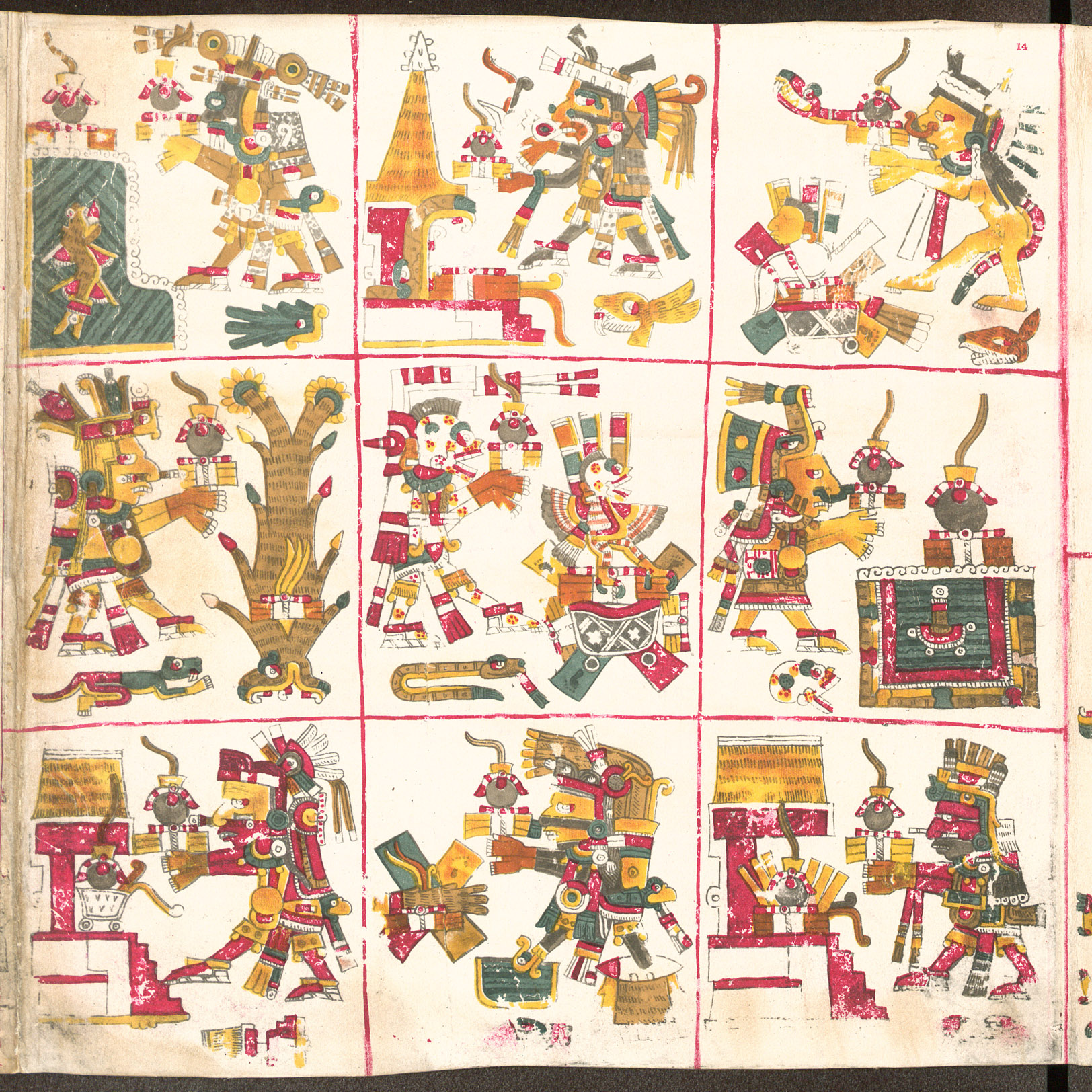 Page 14 of the Codex Borgia.